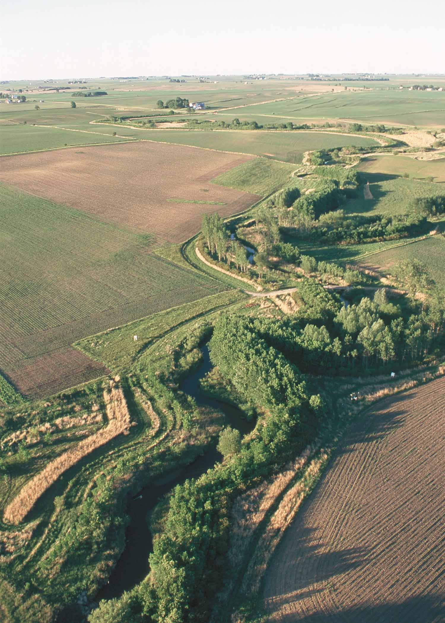 "Valuable information on conservation buffers is still flowing from Bear Creek in Story County, Iowa. A riparian buffer first established in 1990 on the Ron Risdal farm has been studied extensively for ten years; ten major findings have been gleaned from the research at the site."